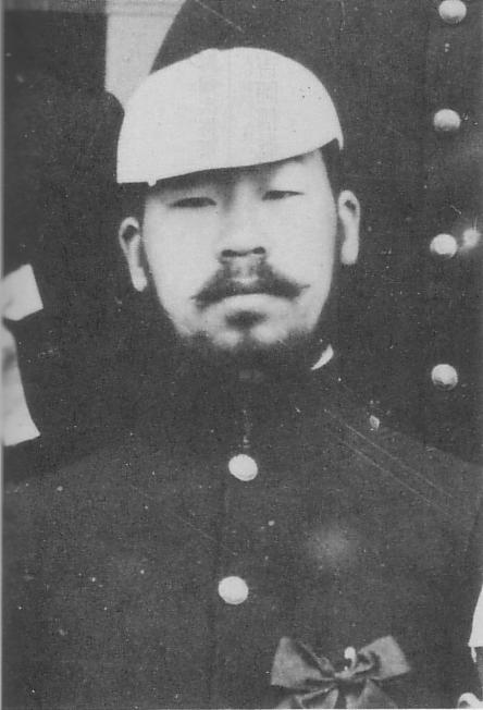 a Japanese head of the cheering group ,吉岡信敬（Shinkei Yoshioka）